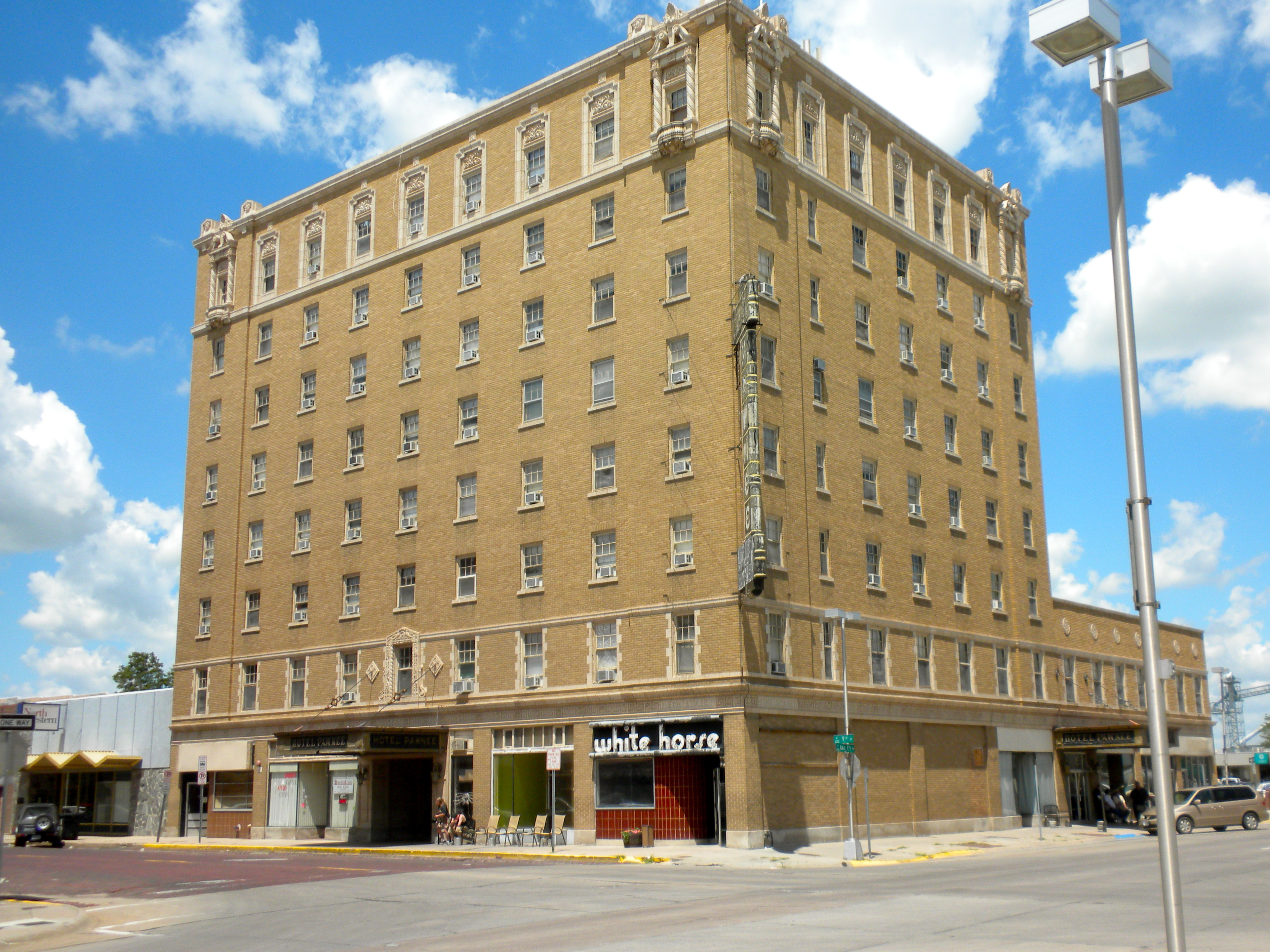 Hotel Yancey on the NRHP since May 9, 1985. At 221 E. 5th St. across from the Fox Theater (also on NRHP), North Platte, Nebraska. Now used as a retirement home. Was probably so big because of the huge railroad switching yards (still) in town.